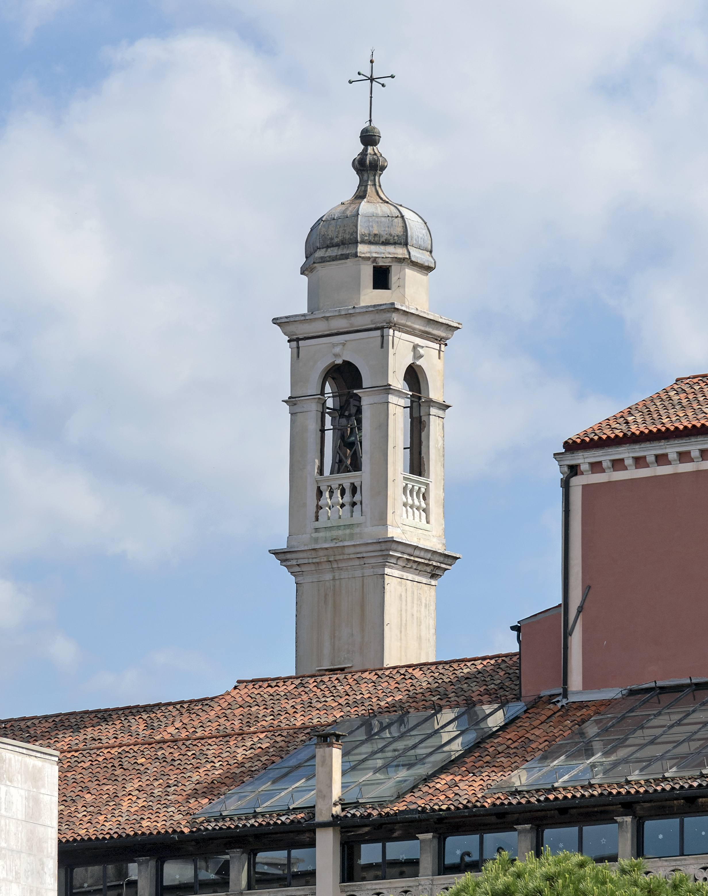 Scalzi, Venice - Bell tower